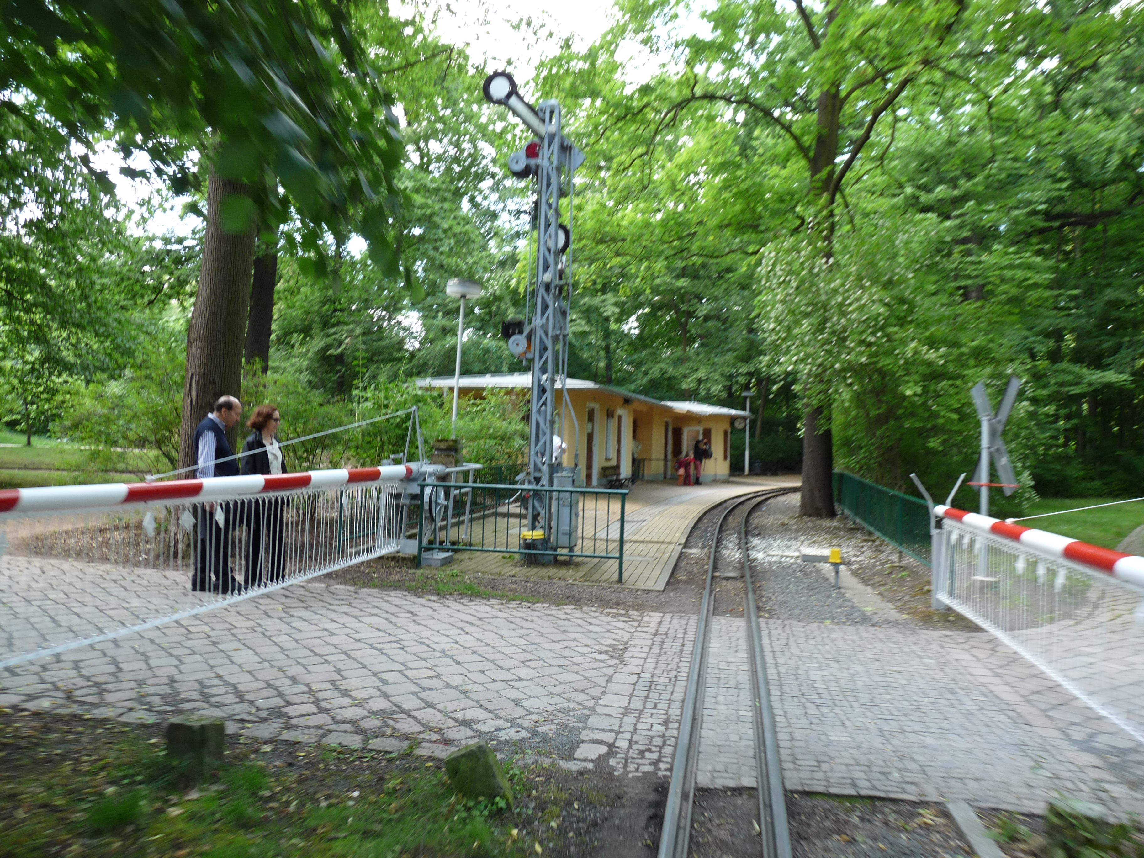 Dresden parkrailway station "Carolasee"